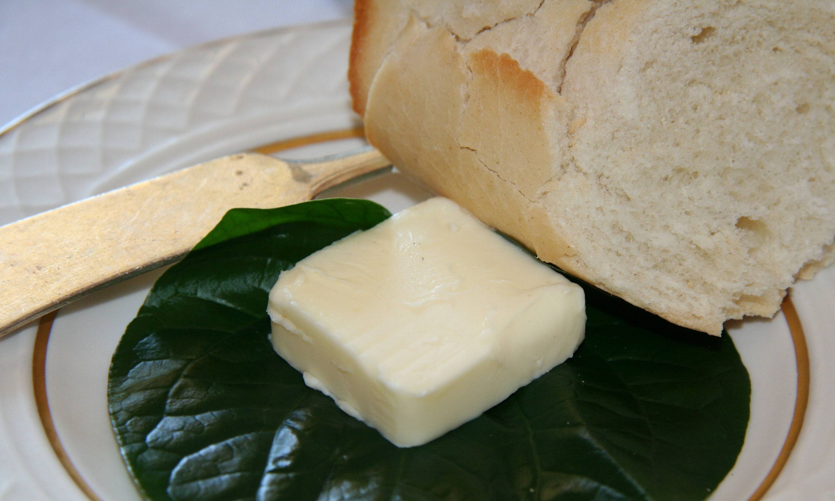 A pat of butter, served on a leaf, with a butter knife and bread